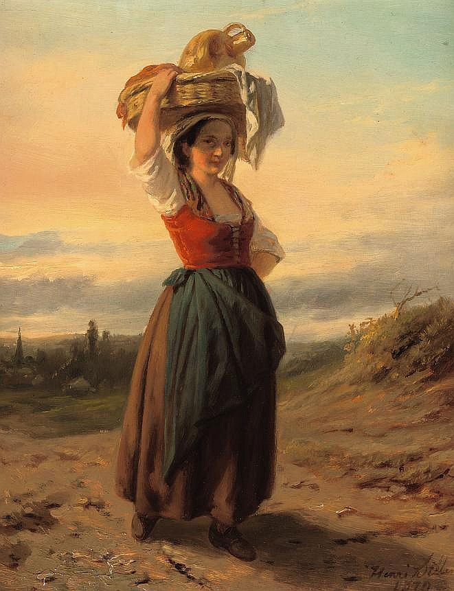 Italian beauty in a summer landscape